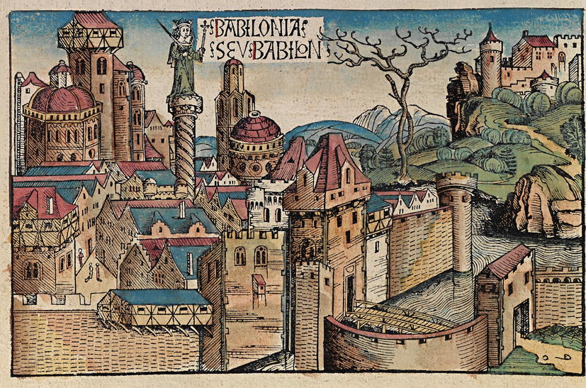 This is a part of a scan of an historical document: Title: Schedelsche Weltchronik or Nuremberg Chronicle